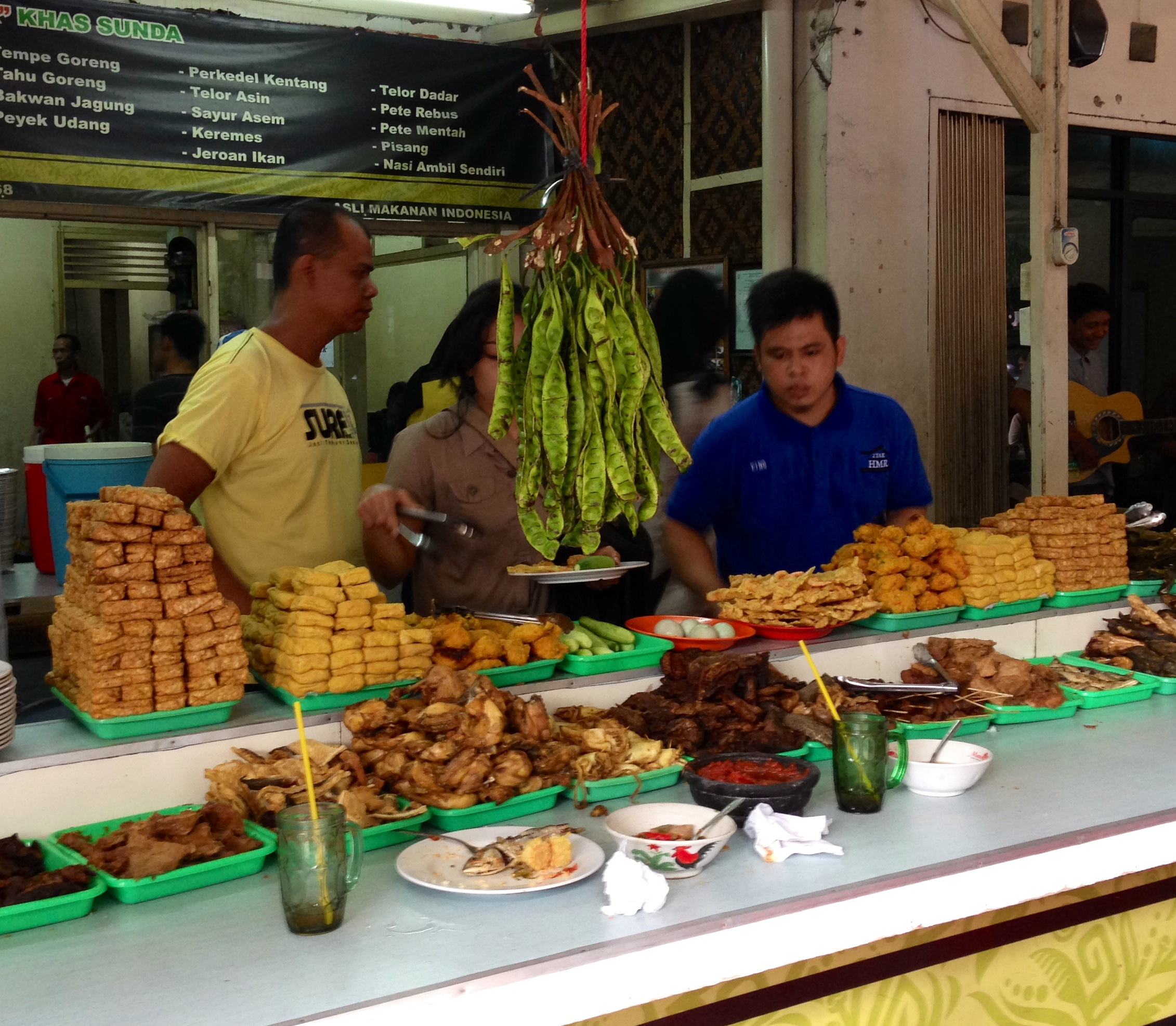 Sundanese cuisine at a food stall in Jakarta